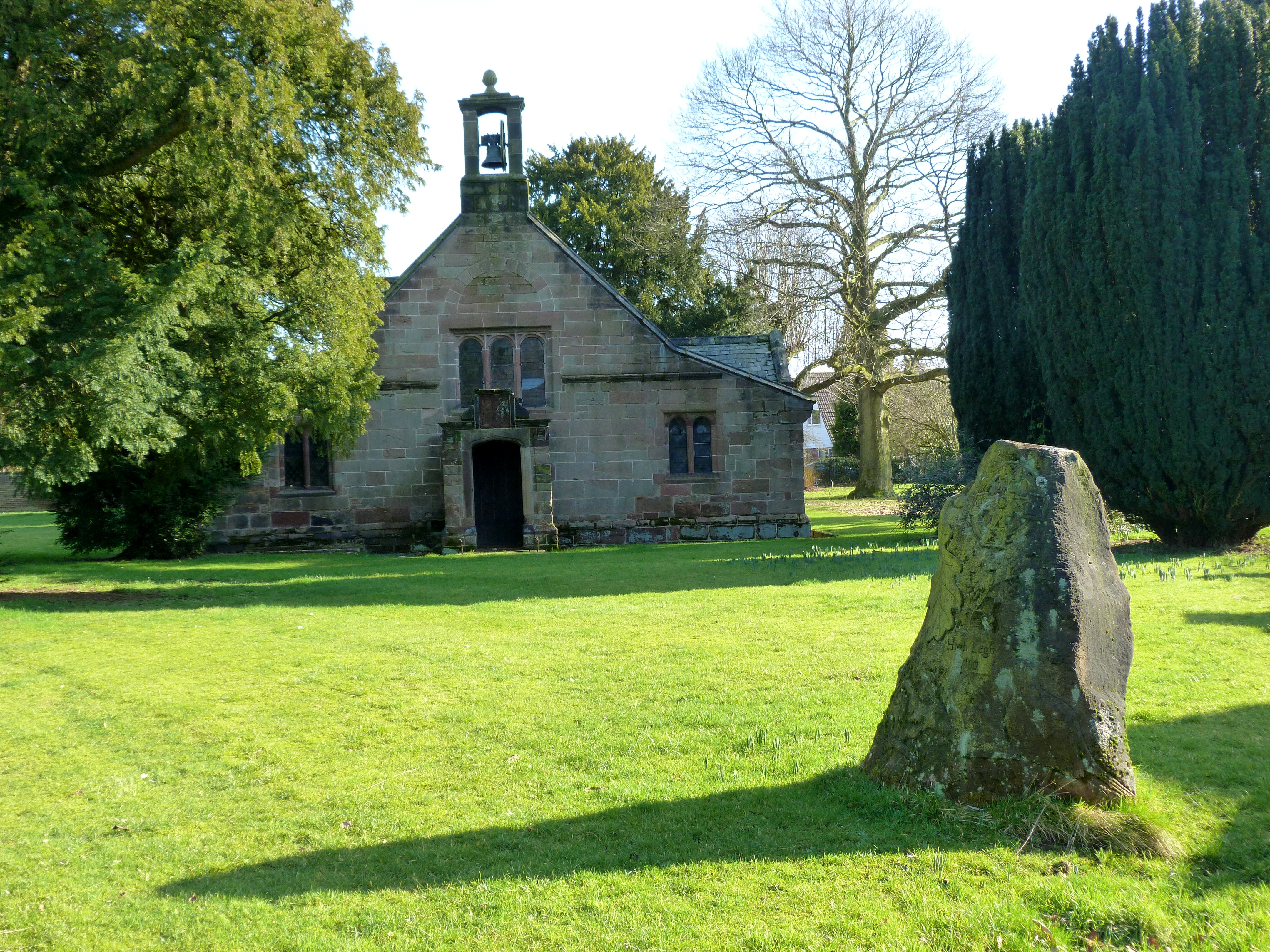 Chapel of the Blessed Virgin Mary, Pheasant Walk, High Legh, Cheshire, seen from the west. In the foreground is the High Legh Millennium Stone, installed in 2000.